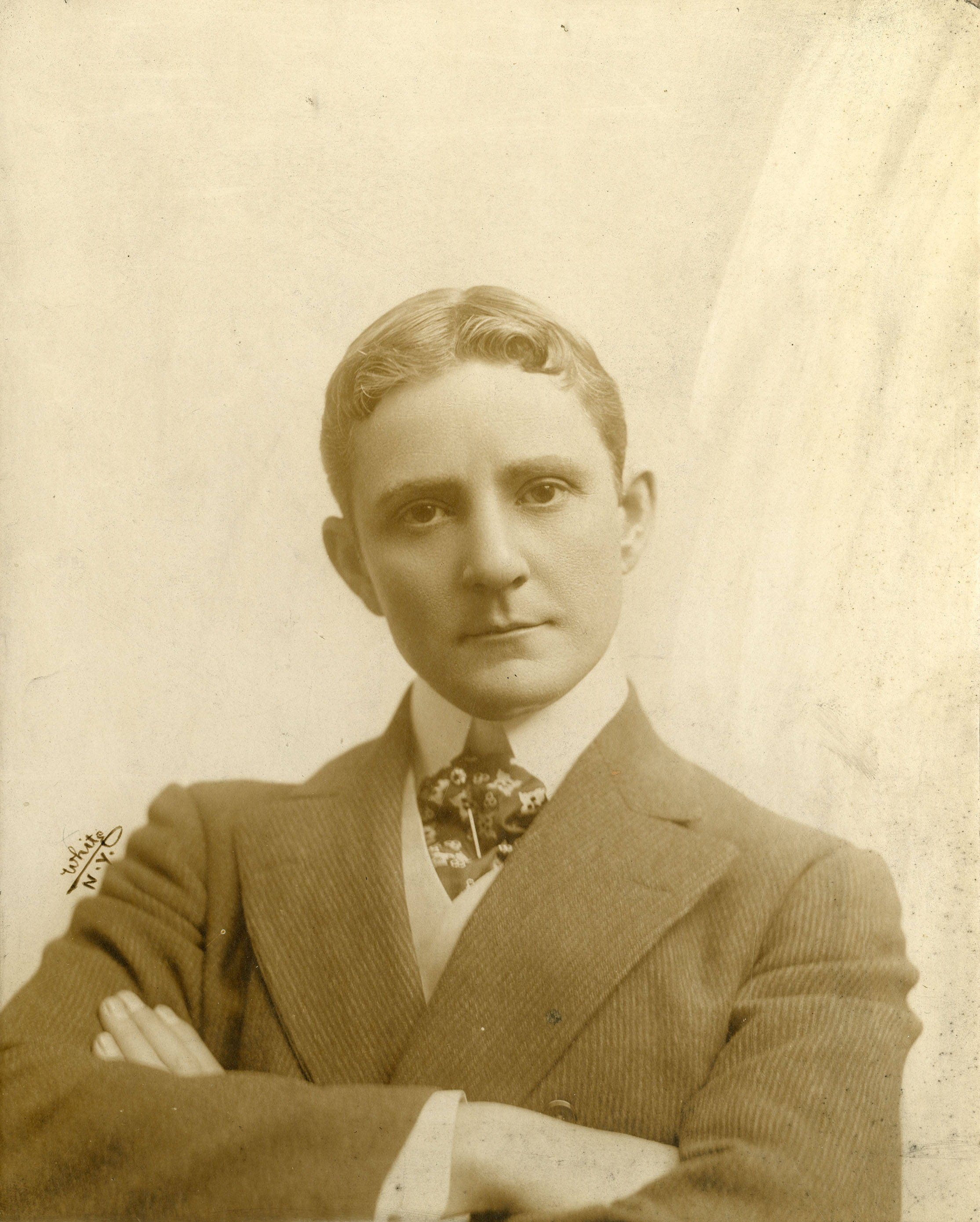 Cyril Scott Subjects: actors